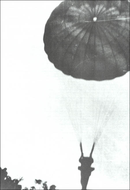 original description: "One of the second wave of Paracommandos at Paulis"[1]